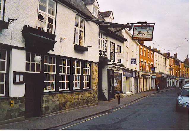 Parsons Street, Banbury, Oxfordshire, with the Reindeer Inn on the left